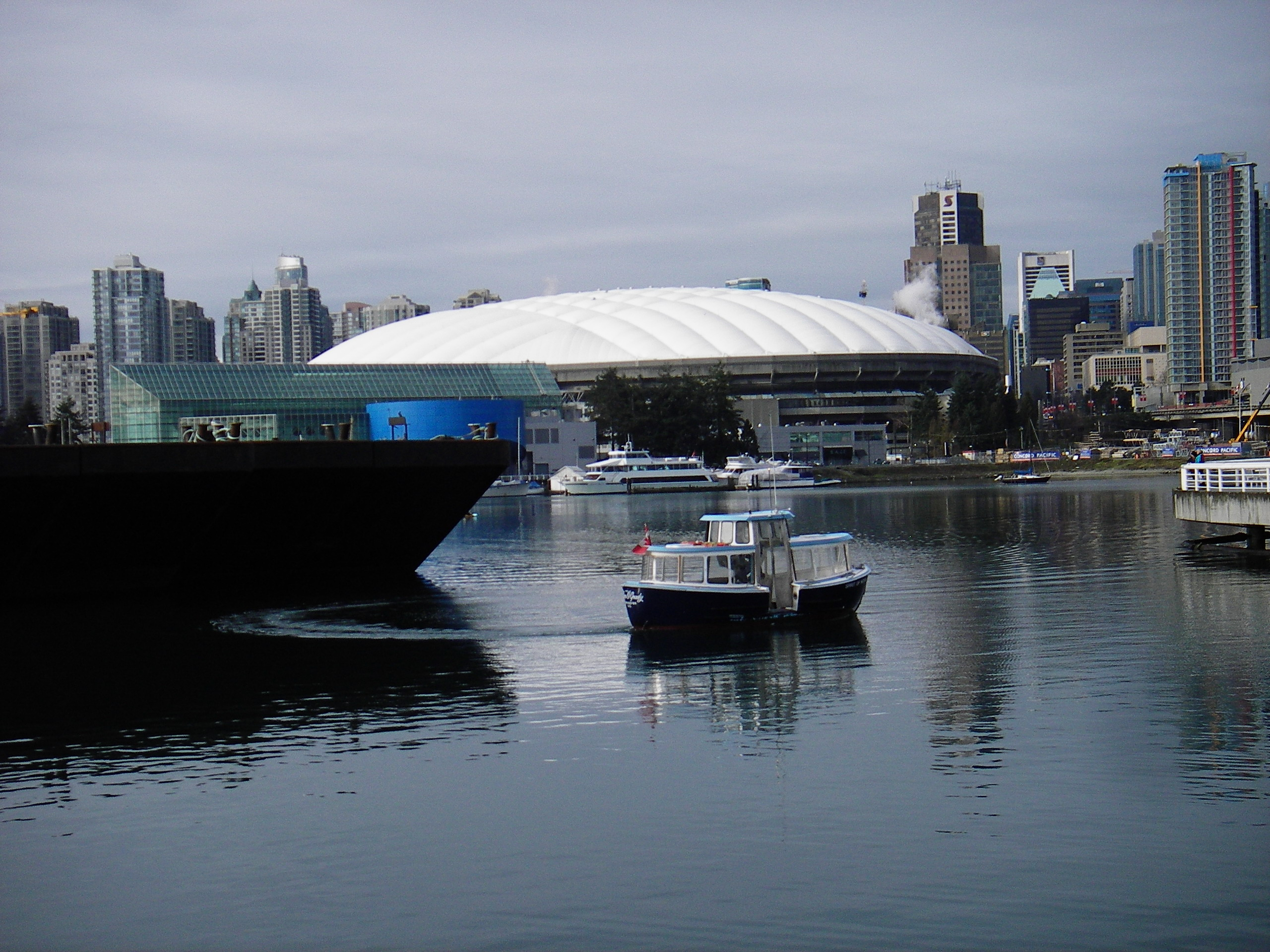 View of Plaza of Nations (glass roof) and BC Place Stadium (teflon-coated fibreglass roof) as of last week (Dec. 31, 2006). The recent roofing problems of these two structures reminded me of the Leaky Condo Crisis which was caused by bad construction during the 1980s & 1990s.